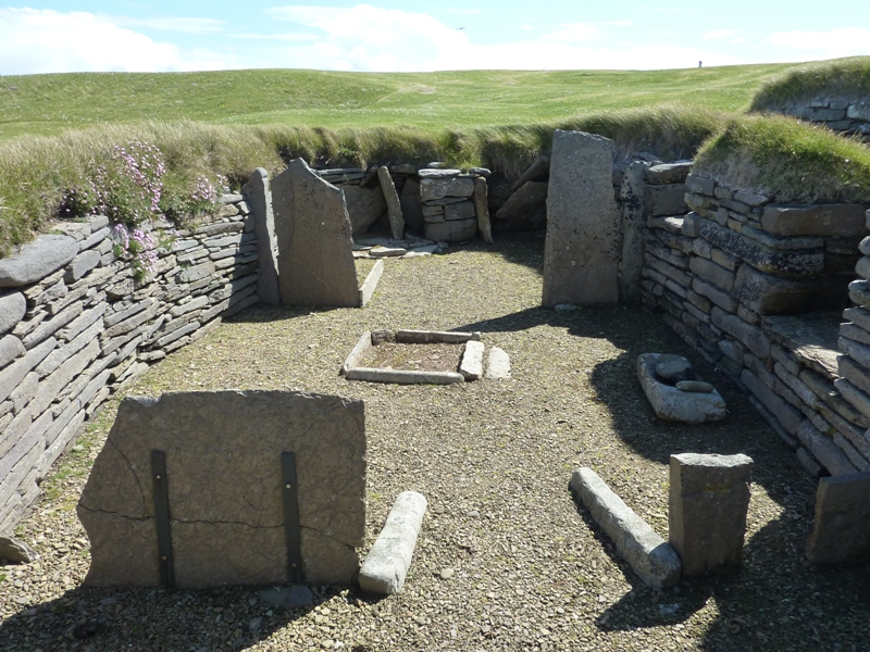 Knap of Howar, Papa Westray, Orkney, Scotland. In house 2 looking east.